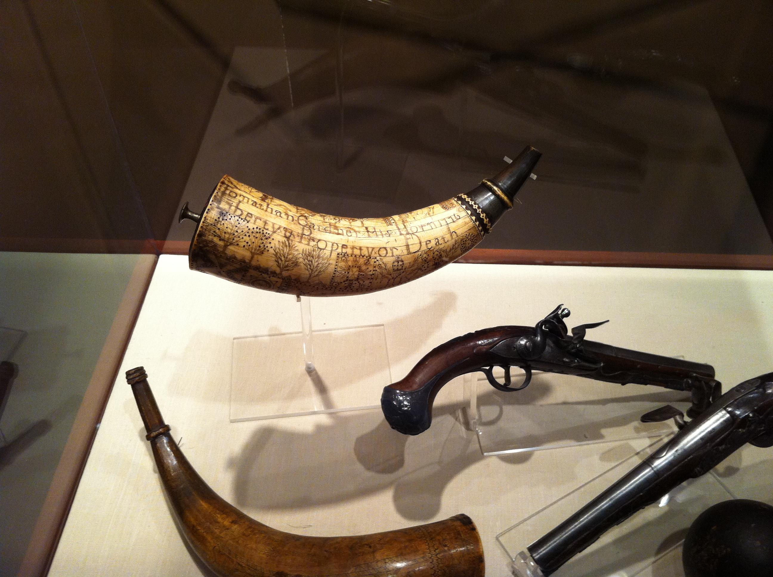 Jonathan Gardner Powder horn 1776 at the Concord Museum, Concord, Massachussets, USA.